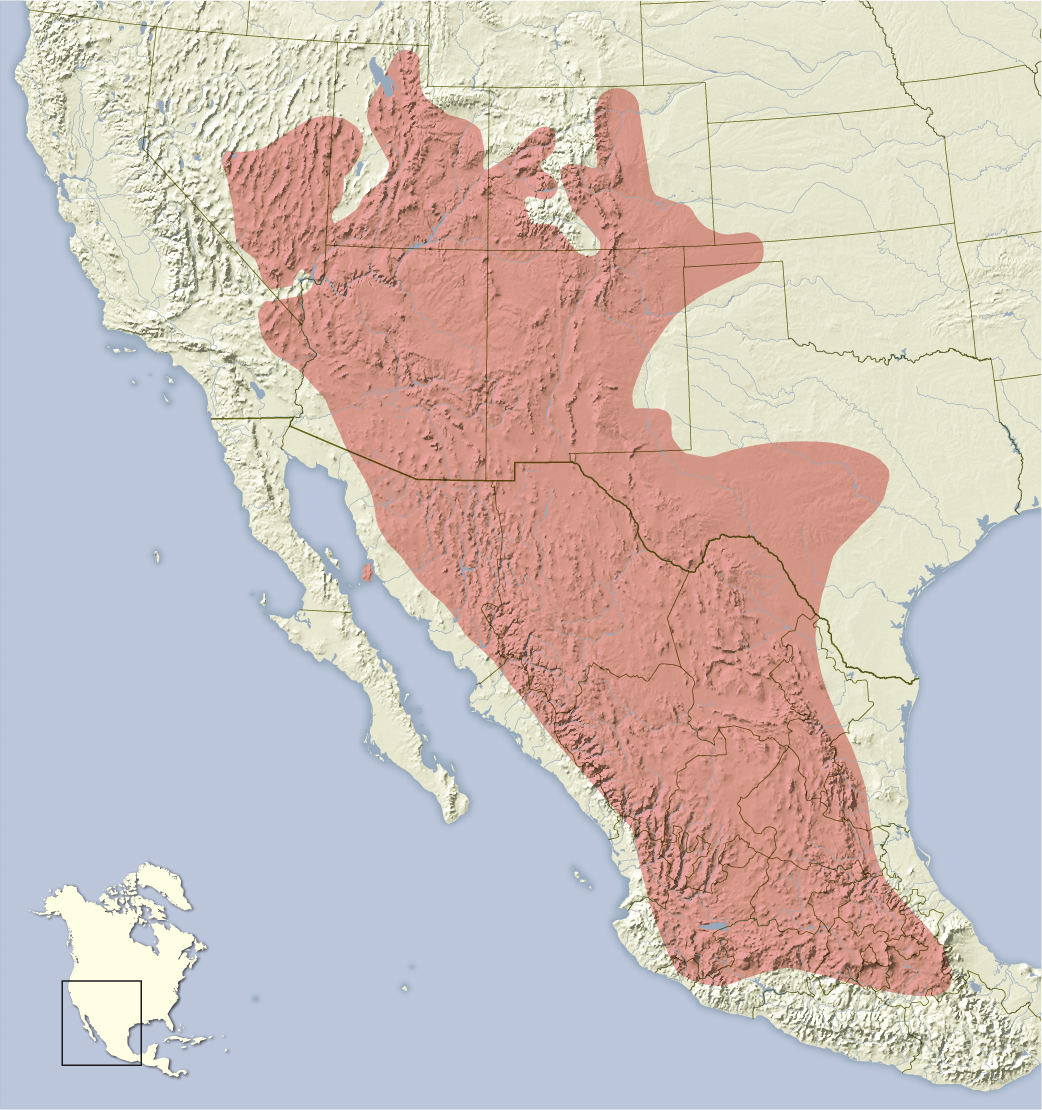 Distribution map of the rock squirrel